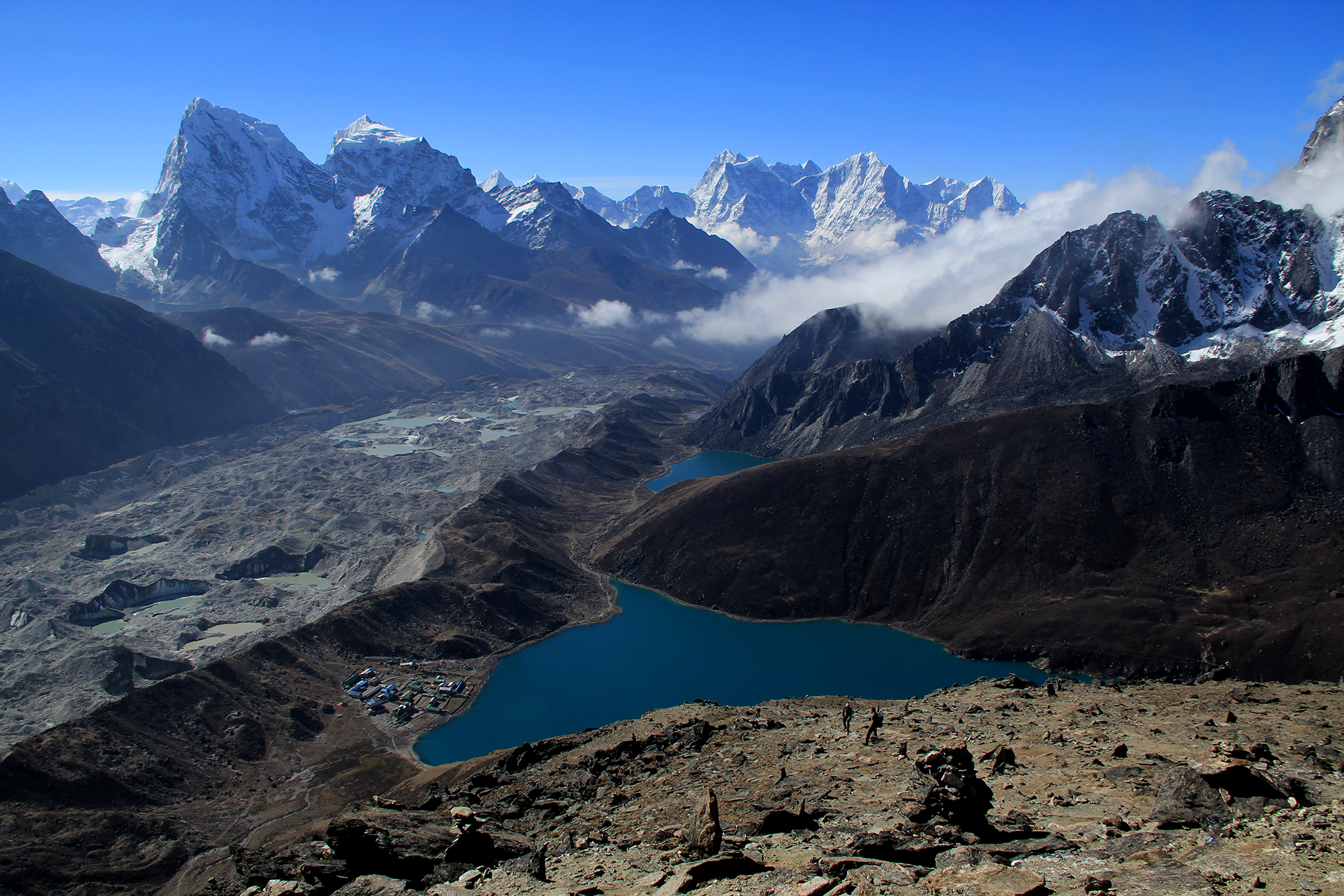 Gokyo Lakes are oligotrophic lakes in Nepal's Sagarmatha National Park, located at an altitude of 4,700–5,000 m (15,400–16,400 ft) above sea level.नेपाली: गोक्यो ताल नेपालको सगरमाथा अञ्चल, सोलुखुम्बु जिल्लामा अवस्थित ताल हो । सगरमाथा राष्ट्रिय निकुञ्ज भित्र रहेको यो ताल समुन्द्र सतहबाट ४,७००-५,००० मिटर (१५,४००-१६,०० फिट) उचाइमा रहेको छ ।मैथिली: गोक्यो ताल नेपालक सगरमाथा अञ्चल, सोलुखुम्बु जिलामें अवस्थित अछि । सगरमाथा राष्ट्रिय निकुञ्ज भितर रहल ई ताल समुन्द्र सतहसे ४,७००-५,००० मिटर (१५,४००-१६,०० फिट) उच अछि ।